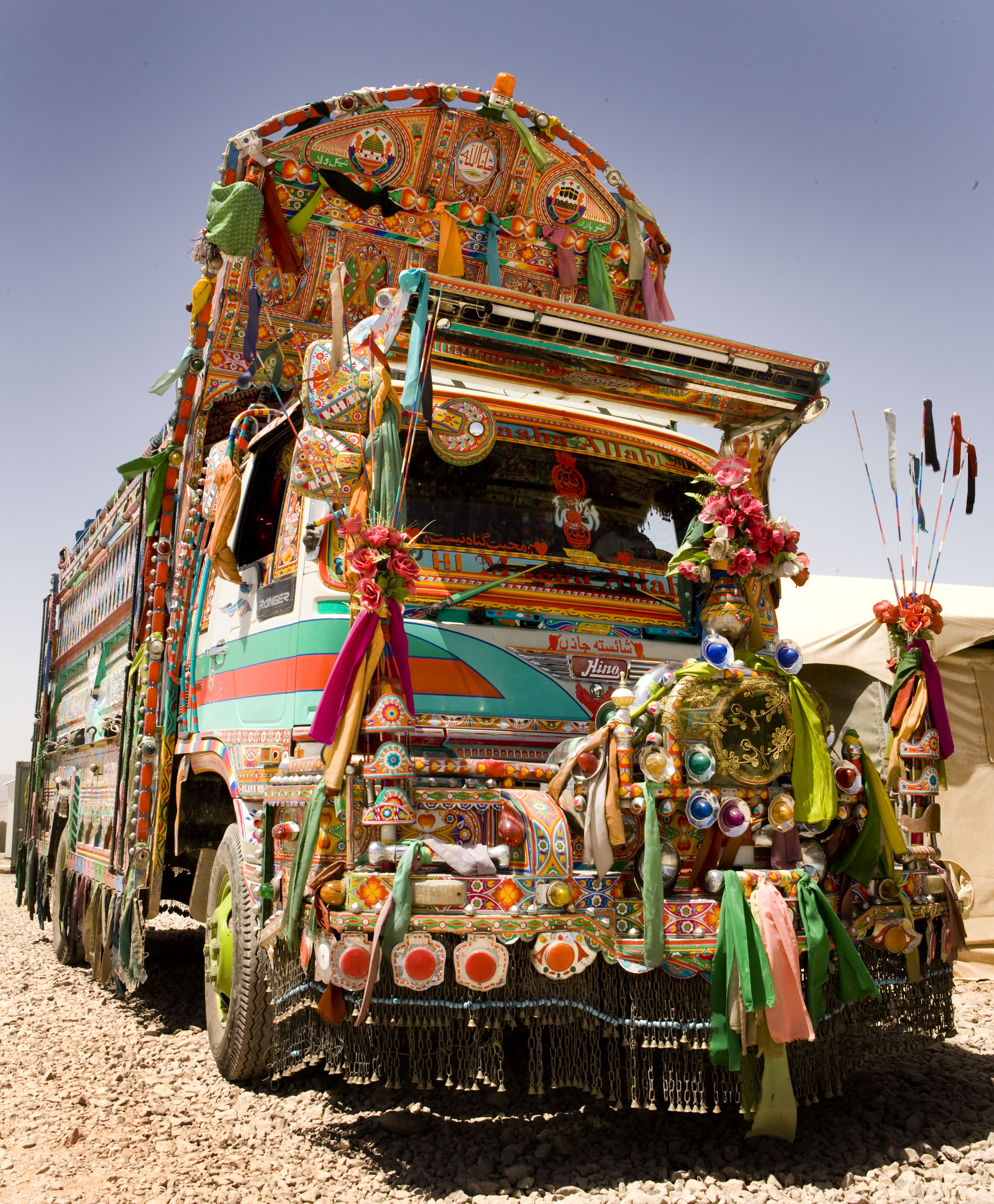 A colourful Jingle truck in Afghanistan. It's a decorated Hino Ranger.